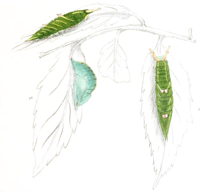 Sephisa dichroa